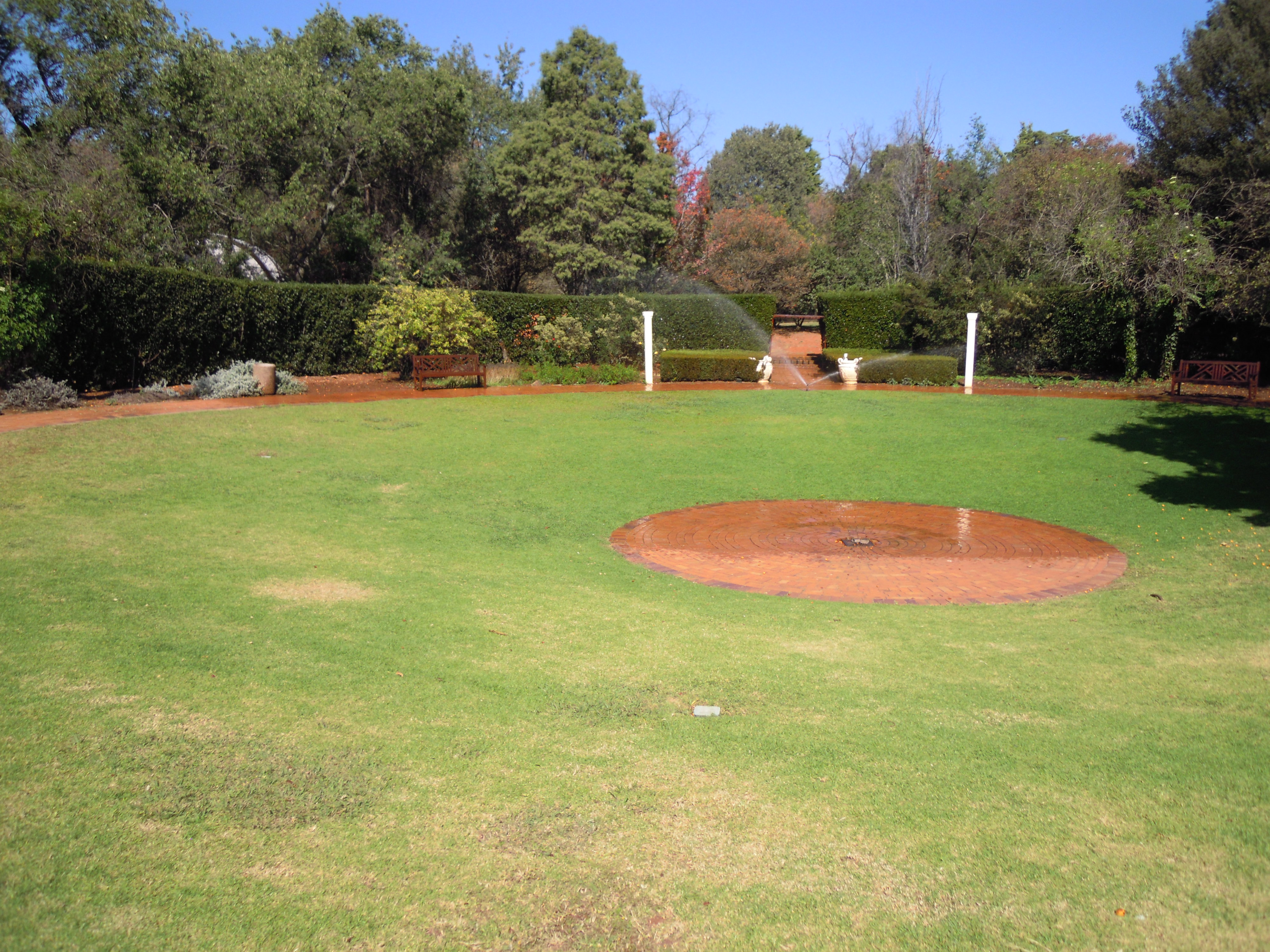 Johannesburg botanical gardens Shakespeare garden02